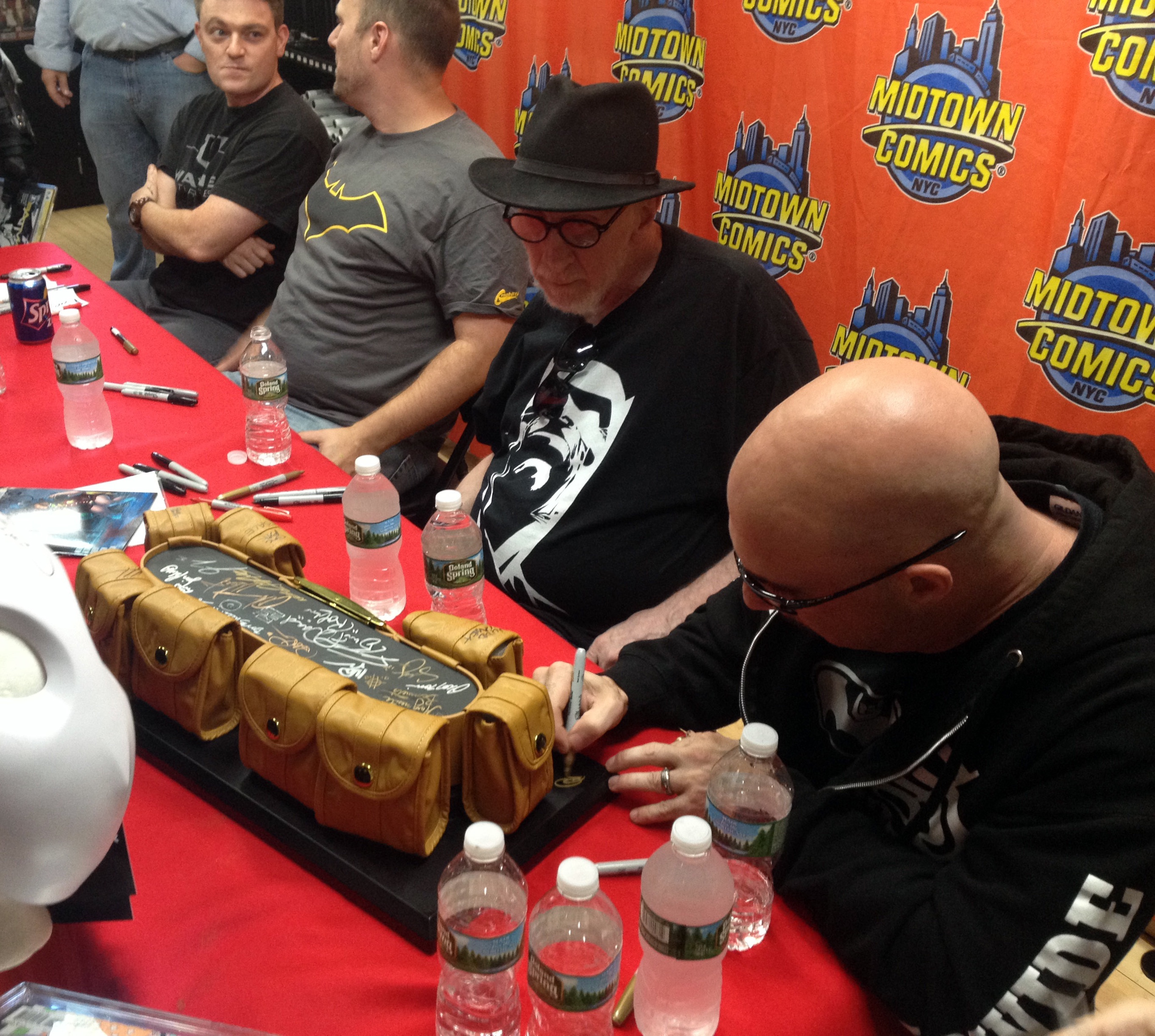 At right, comics artist Greg Capullo signs a replica Batman utility belt during an appearance at Midtown Comics Downtown September 17, 2016, the third annual Batman Day, when DC Comics celebrates the creation of the character Batman. Beside him, from left to right, are fellow creators Scott Snyder, Tom King, and Frank Miller. This photo was created by Luigi Novi. It is not in the public domain, and use of this file outside of the licensing terms is a copyright violation.